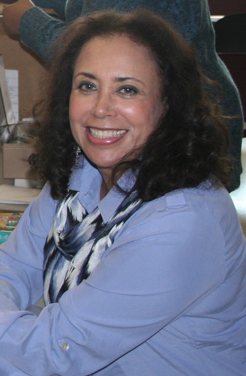 Denise Nicholas at a book signing at a ceremony to celebrate the 25th anniversary of Martin Luther King, Jr.'s holiday in January 2011. Camera: Canon EOS Digital Rebel XT License on Flickr (2011-01-21): CC-BY-2.0 Flickr tags: Norfolk District, U.S. Army Corps of Engineers, USACE, Dr. Martin Luther King Jr., Actress Denise Nicholas, Civil Rights Movement, Mississippi, Freshwater Road